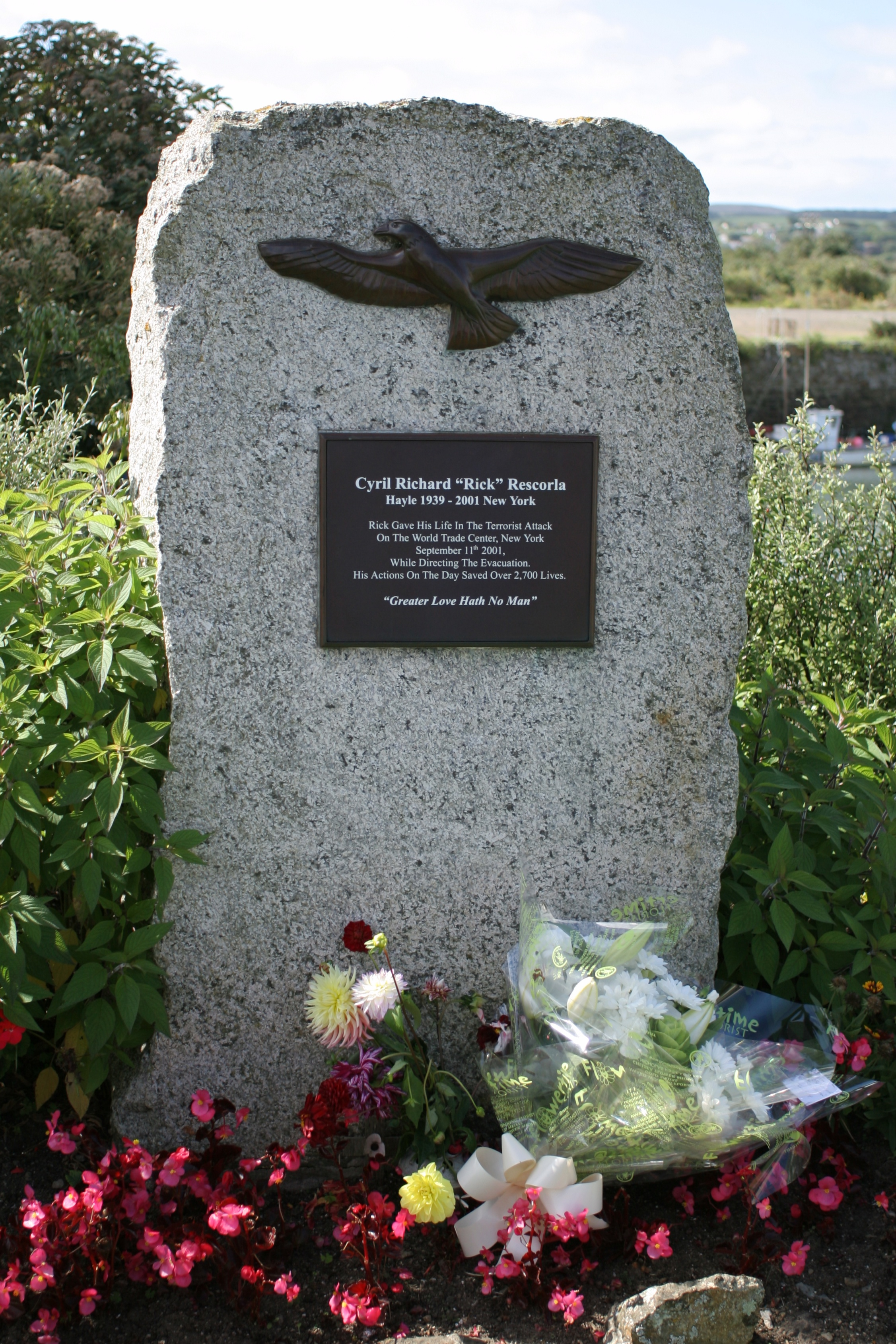 Memorial to Cyril Richard "Rick" Rescorla in Hayle